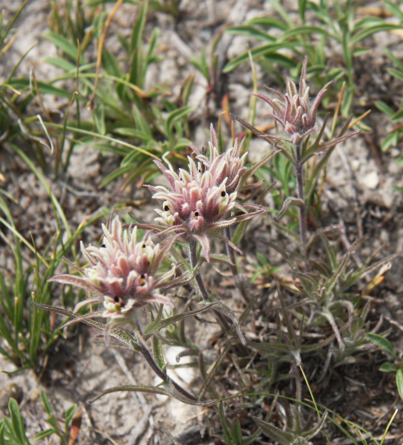 Alpine paintbrush (Castilleja nana), darker form with bracts gray to dull reddish; black spots are the tips of the corollas of individual flowers. At 10,200ft along loop trail south of Wasco Lake in 20-Lakes Basin, Hoover Wilderness, California.